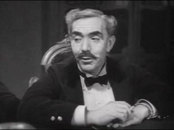 Кадр из фильма Человек в футляре